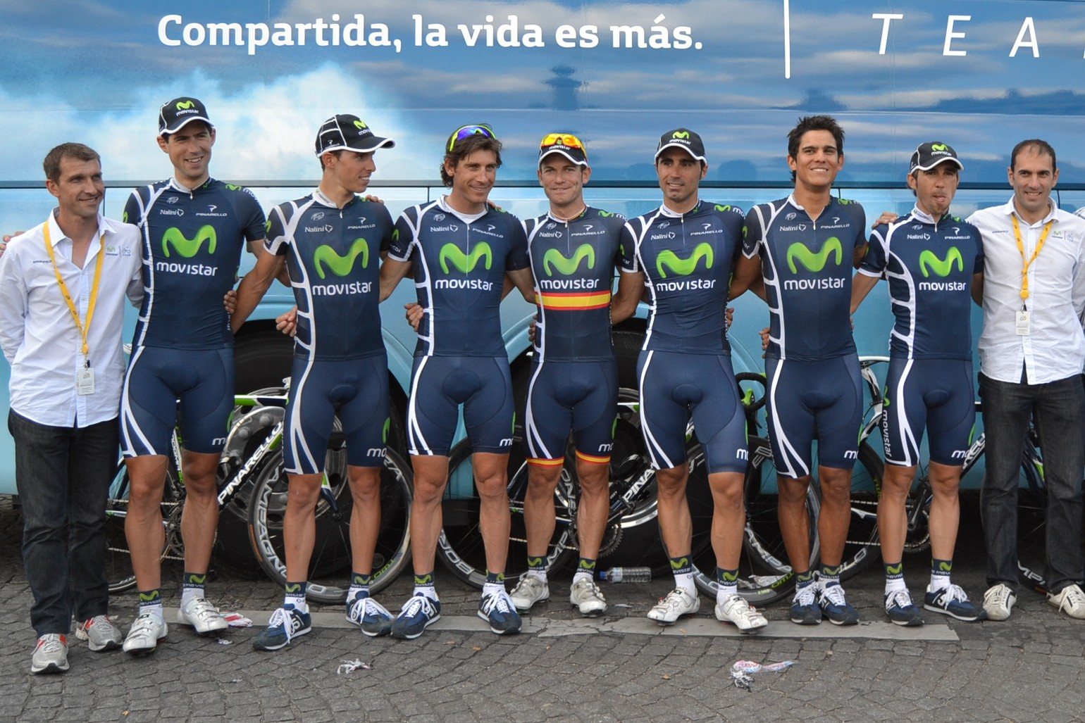 Movistar team during 21th stage of Tour de France 2011 Créteil-Paris